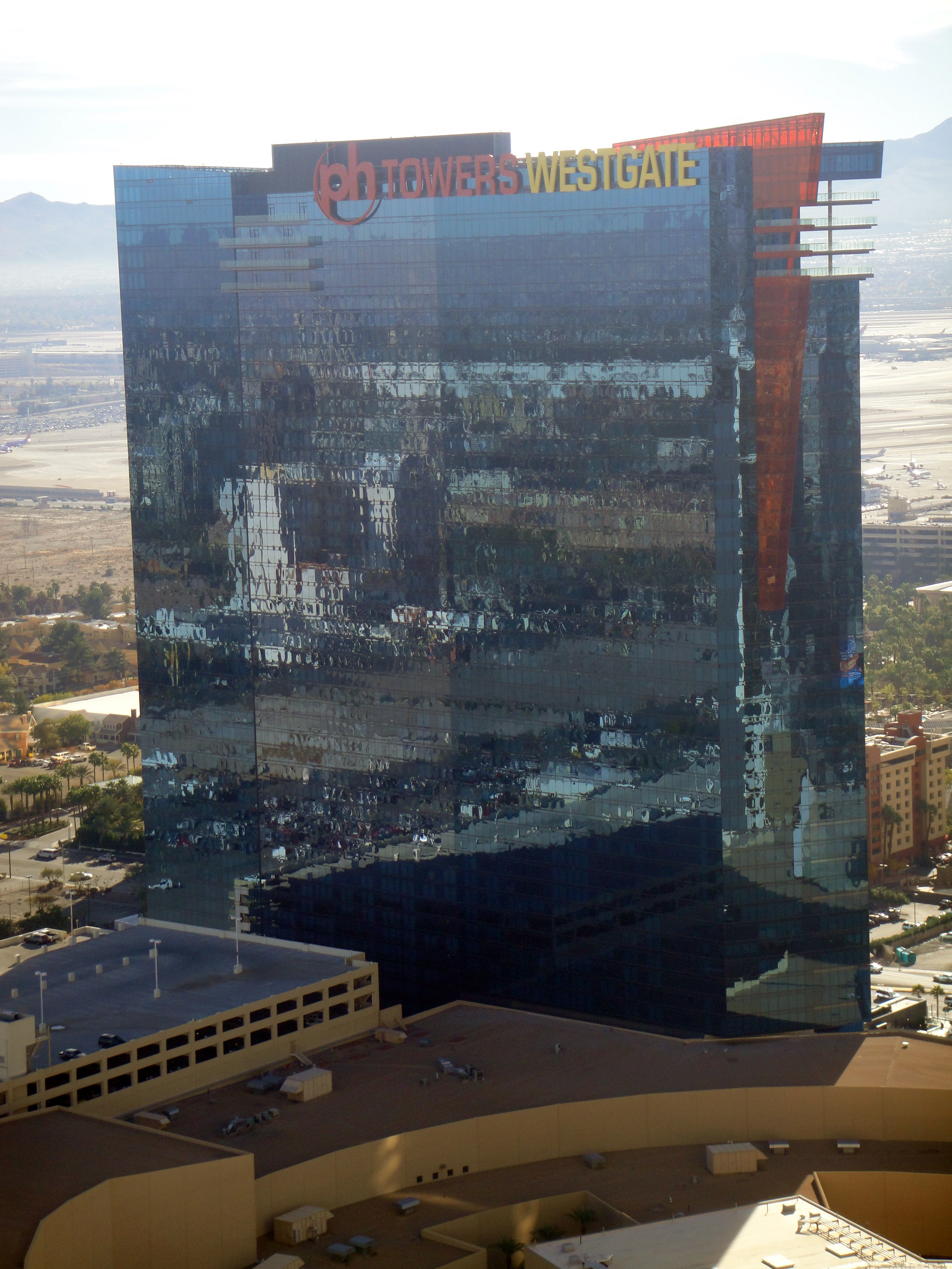 The PH Tower viewed from the Eiffel Tower.